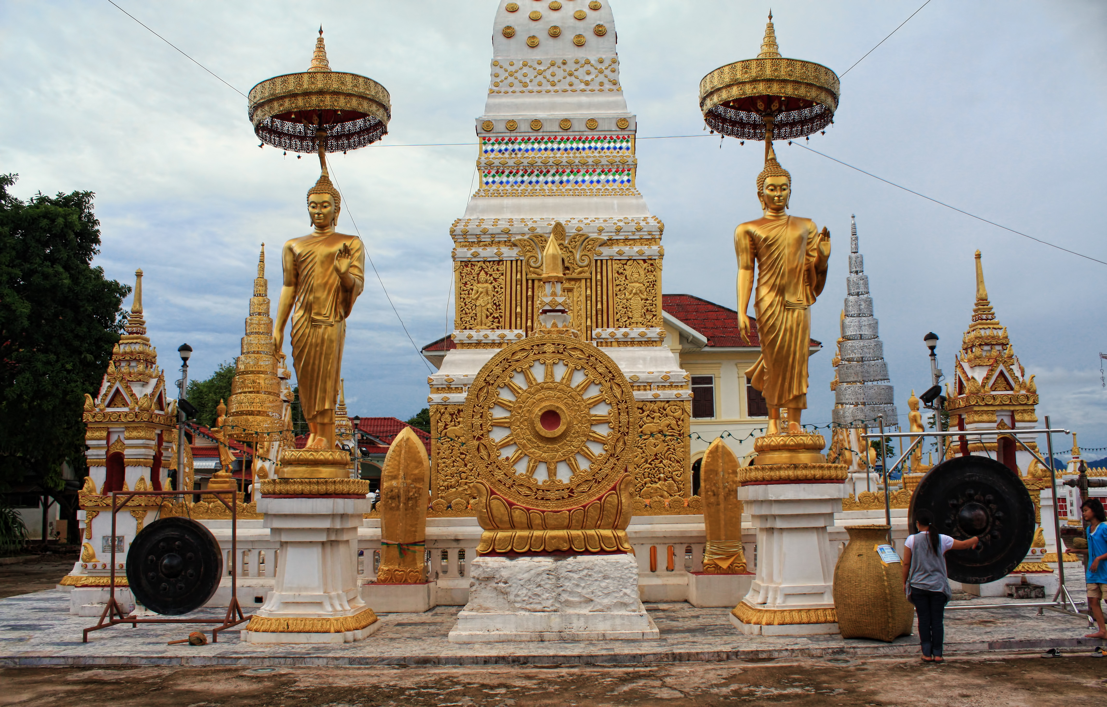 Detail of Phra That at Wat Mahathat, Mueang Nakhon Phanom